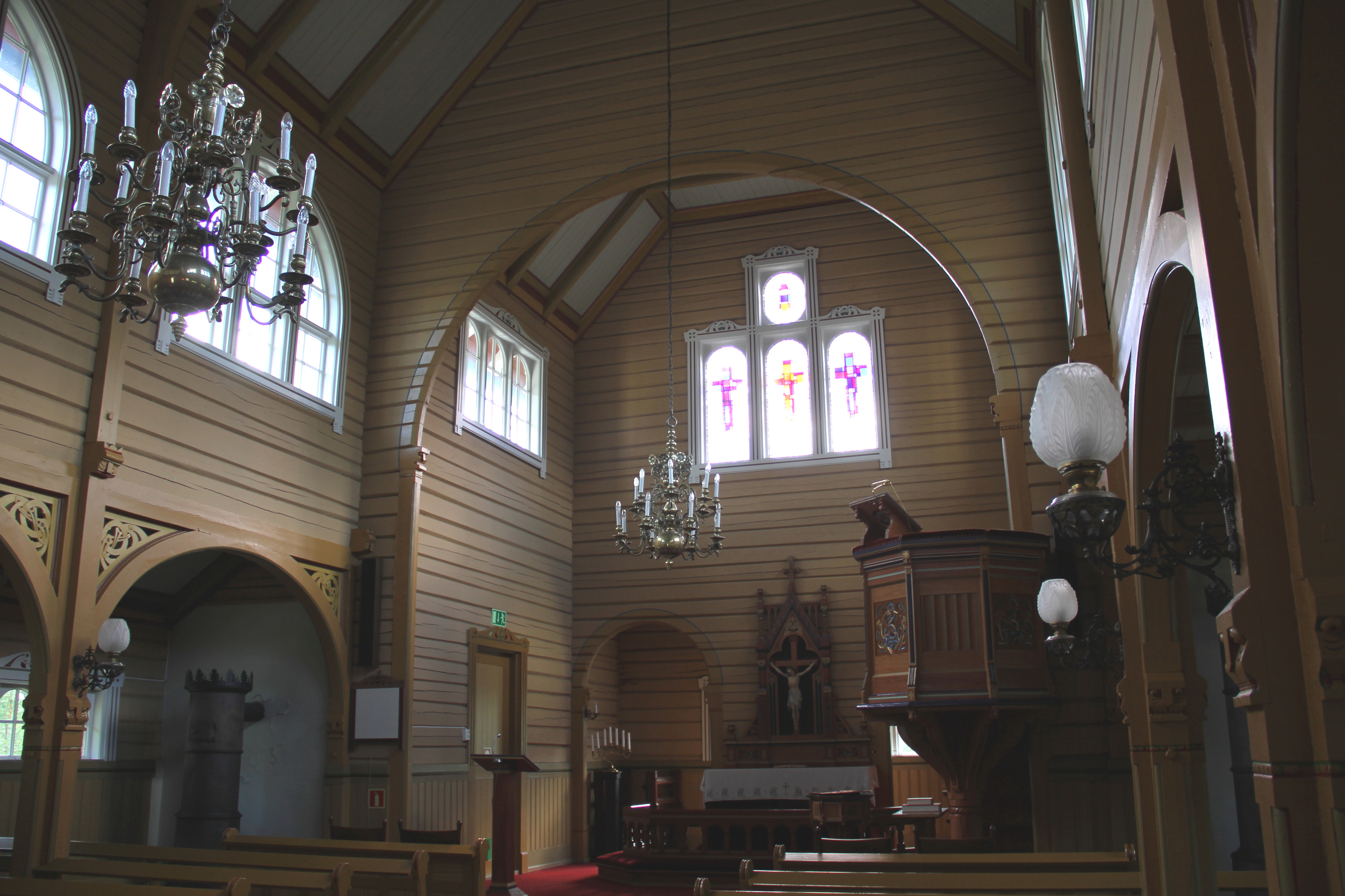 Neiden chapel, Neiden, Sør-Varanger, Norway. - Interior. -View towards altar.